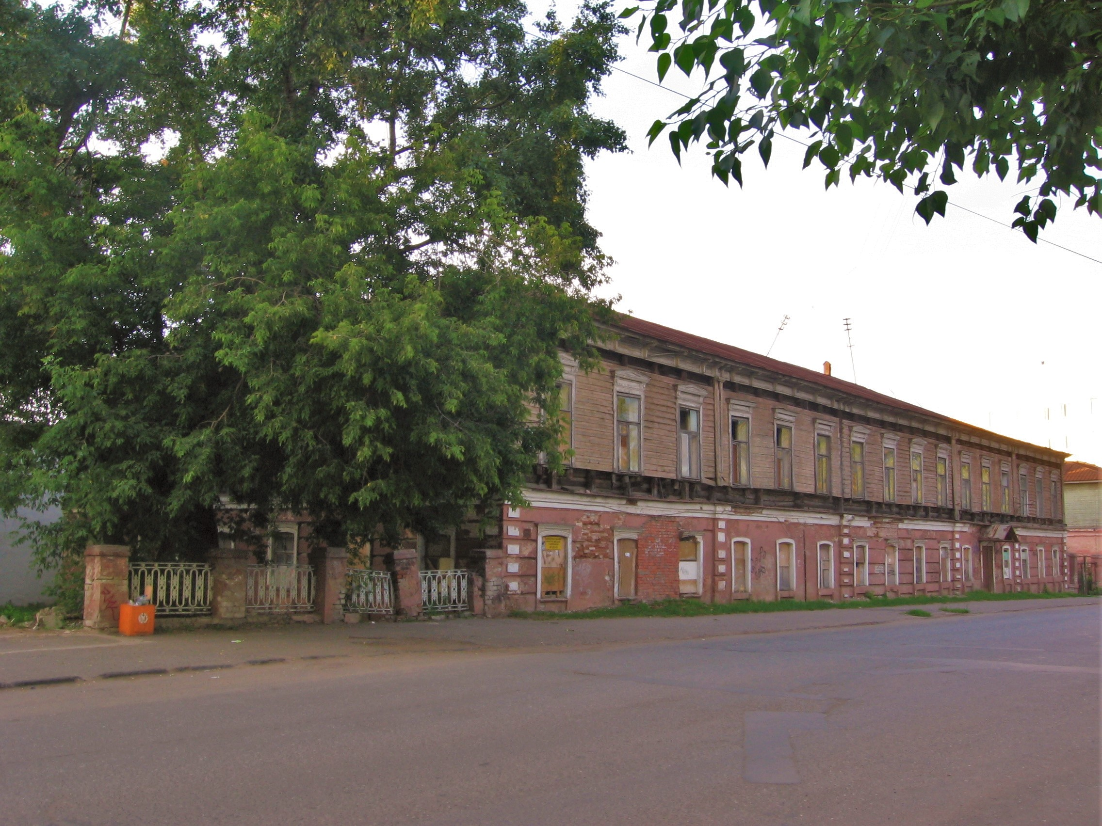 The realschule in Vyatka, Russia